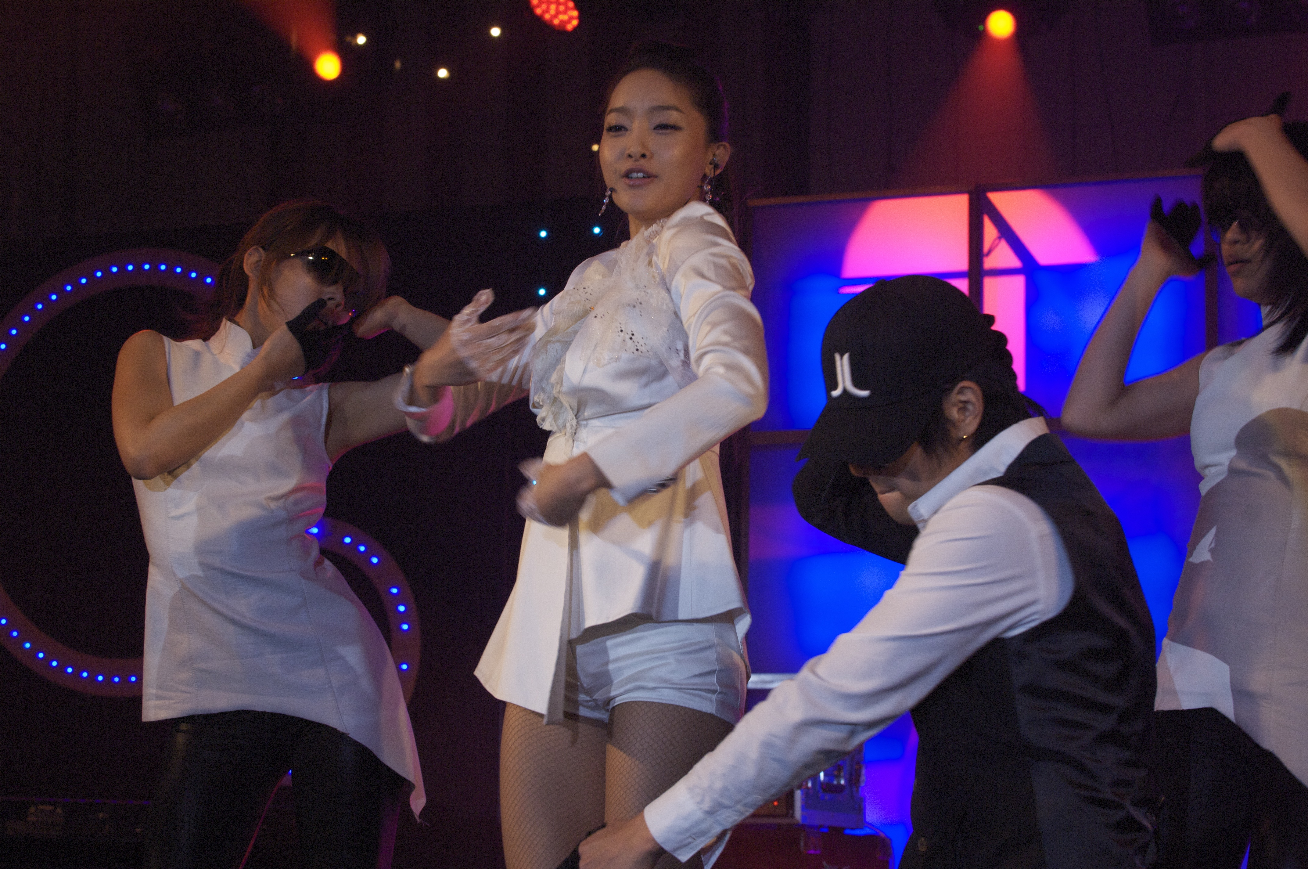 YONGSAN GARRISON, Republic of Korea - U.S. Army Garrison-Yongsan celebrated "KATUSA-U.S. Soldier Friendship Week" starting Monday, April 20. The week is designed foster good relations between American Soldiers and Korean Augmentees to the U.S. Army, commonly referred to as "KATUSAs." The week will began April 20 with informal unit activities like sightseeing tours to nearby Everland Amusement Park. The official opening ceremony was 9 a.m. April 21 at Lombardo Field behind Collier Field House on Yongsan Garrison South Post, and included a performance by a Martial Arts demonstration group. Sporting events will continue throughout the week at Lombardo Field and other locations.